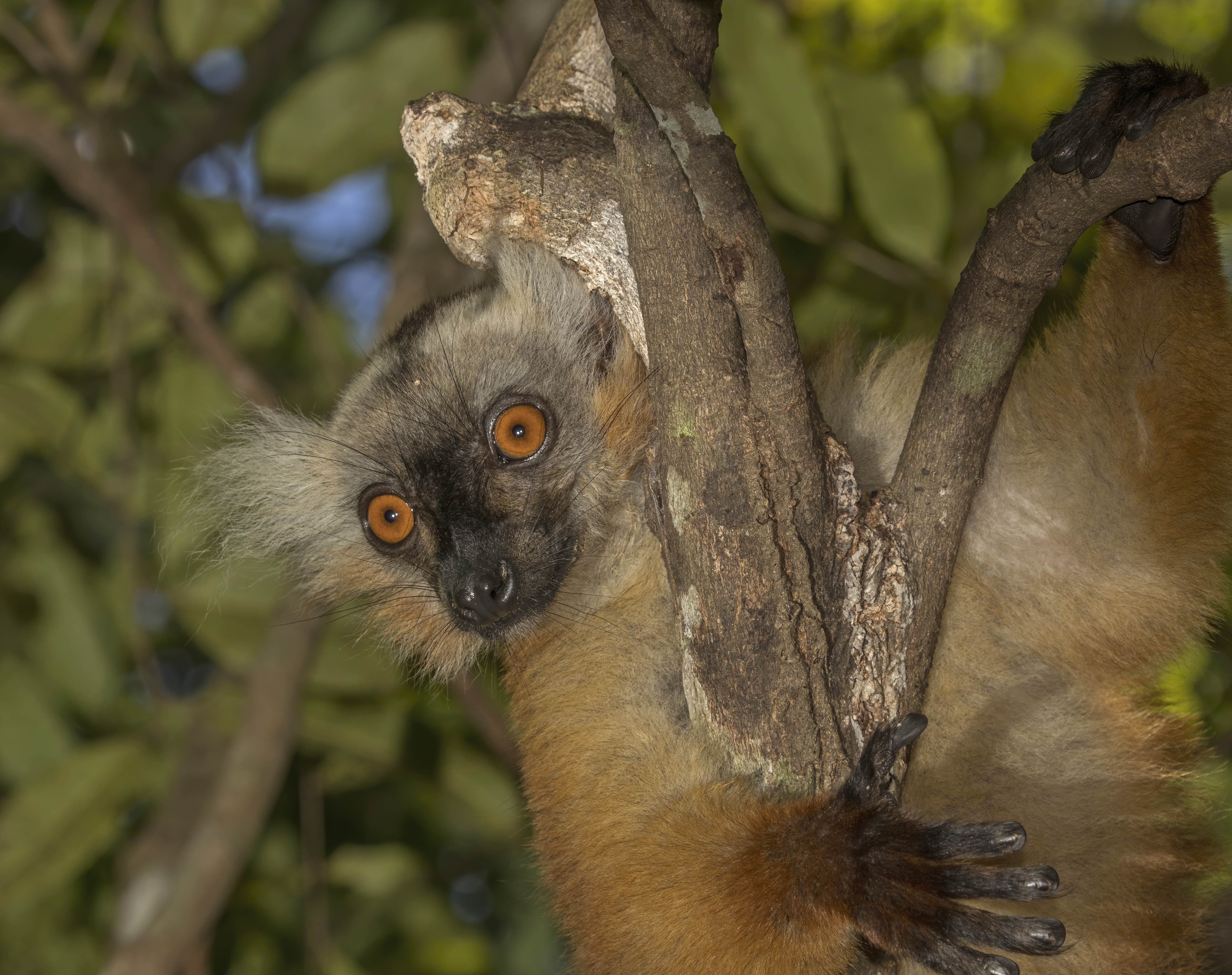 Black lemur (Eulemur macaco) female, Lokobe Strict Reserve, Nosy Be, Madagascar